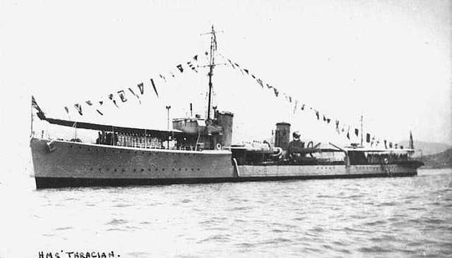 HMS Thracian became IJN Patrol Boat No. 101